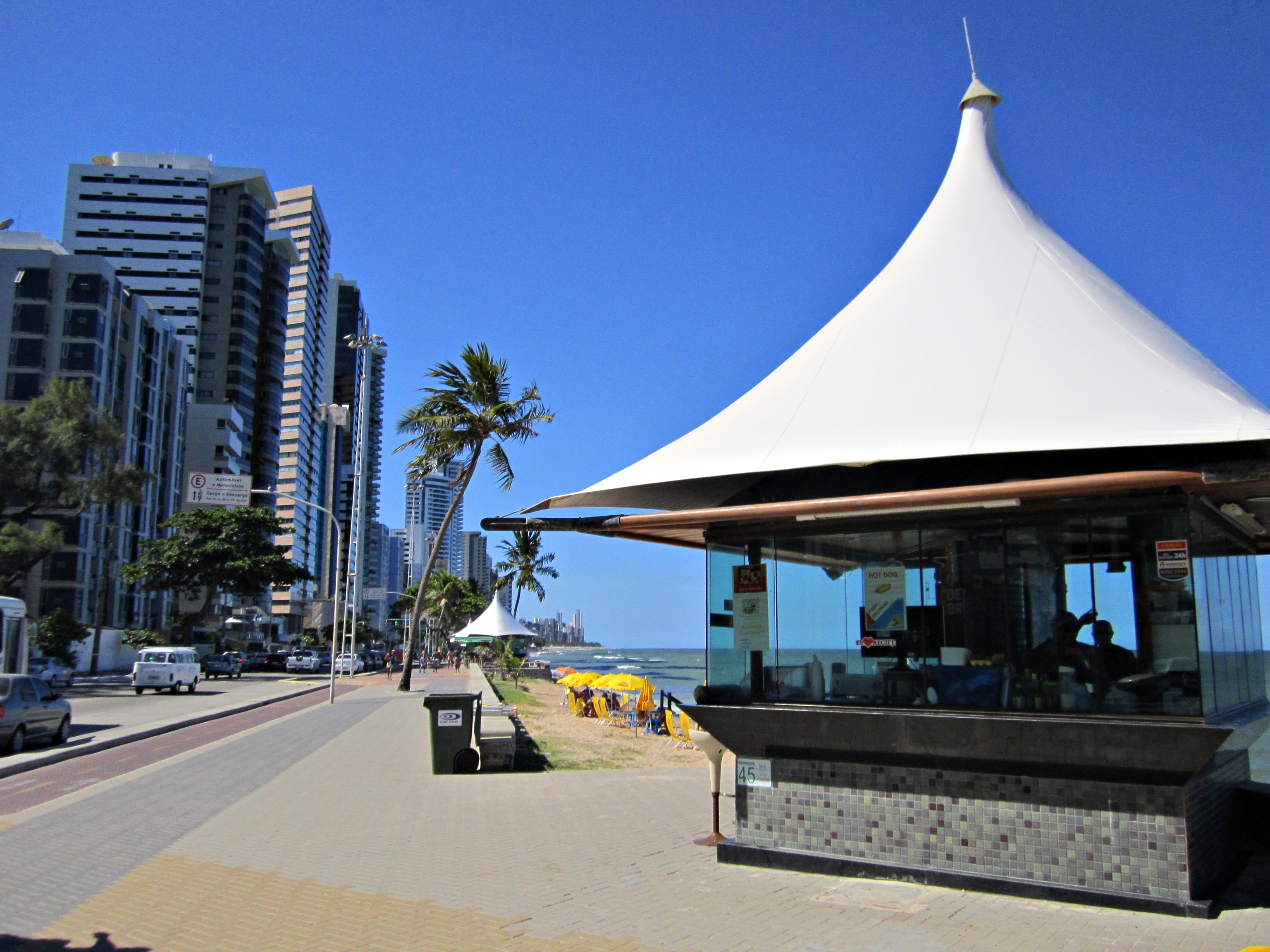 Kiosk - Boa Viagem Beach - Recife - Pernambuco - Brazil